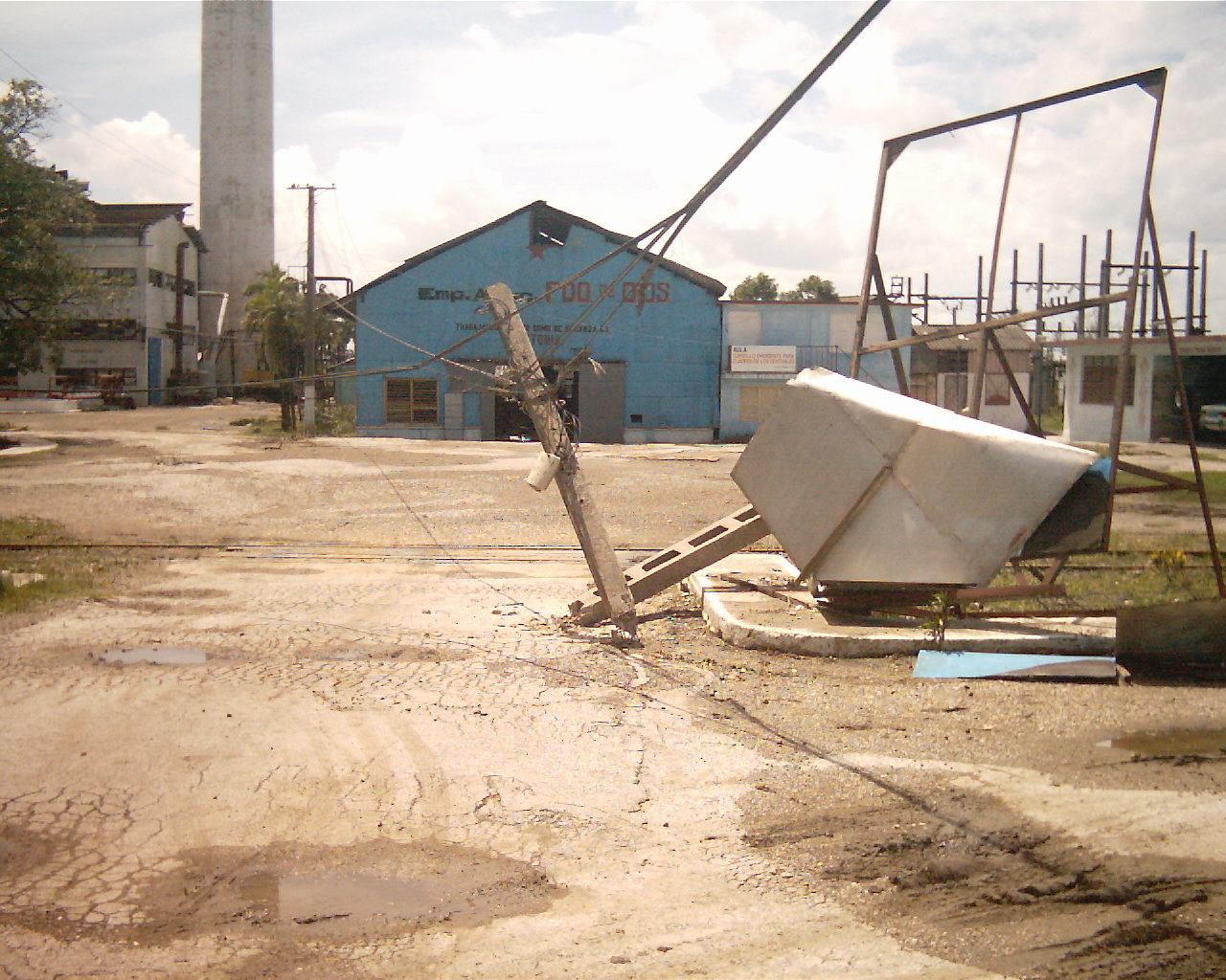 sugar factory of Tacajó